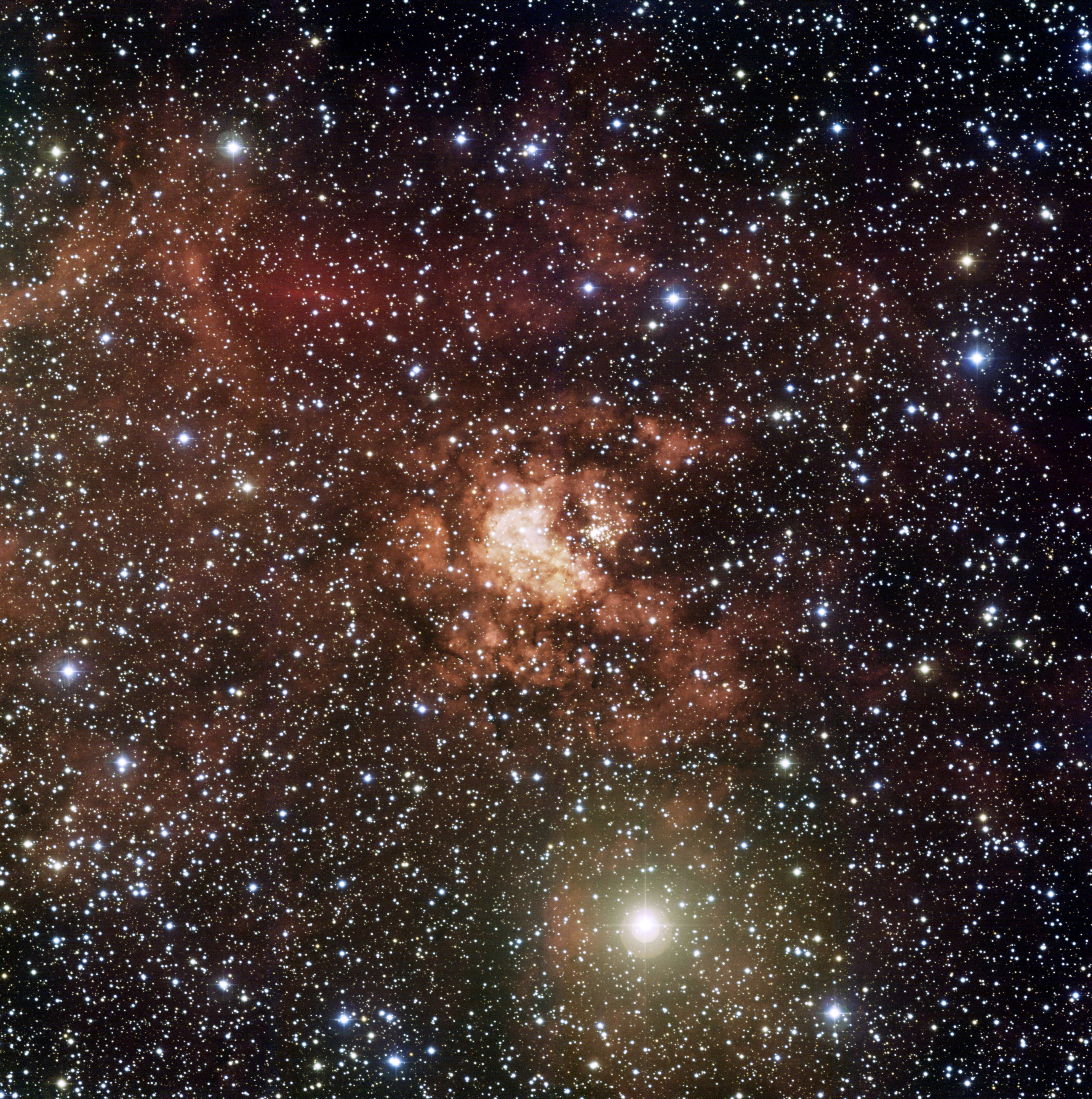 This image, based on data obtained with the Wide Field Imager (WFI) camera attached to the 2.2-m Max-Planck/ESO telescope through four different filters (B, V, R, and H-alpha), shows the amazing intricacies of the vast stellar nursery Gum 29. At its centre lies the cluster of young stars Westerlund 2. One object at the bottom of the cluster is in fact a system of two of most massive stars known to astronomers.